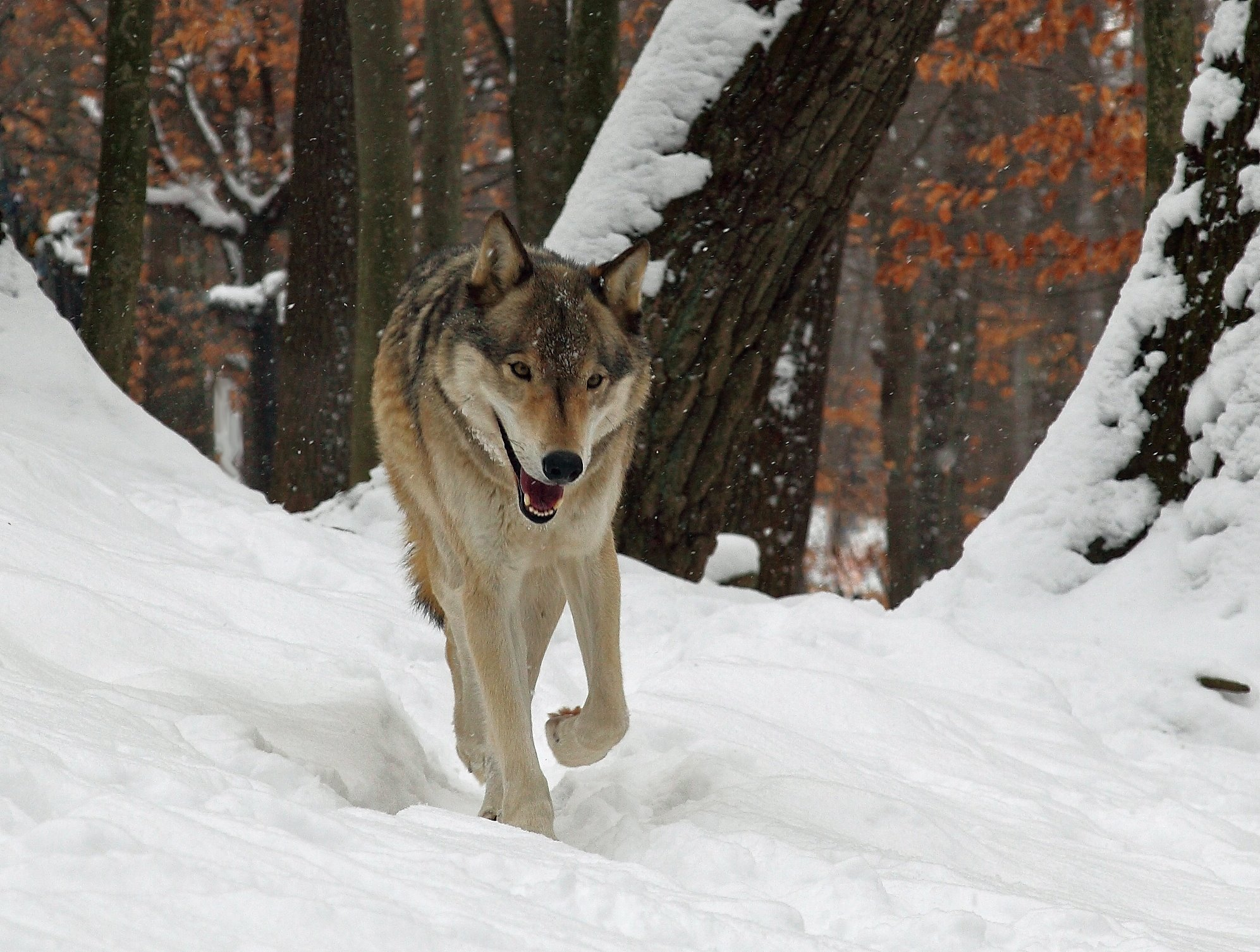 Winter Wolf Snow